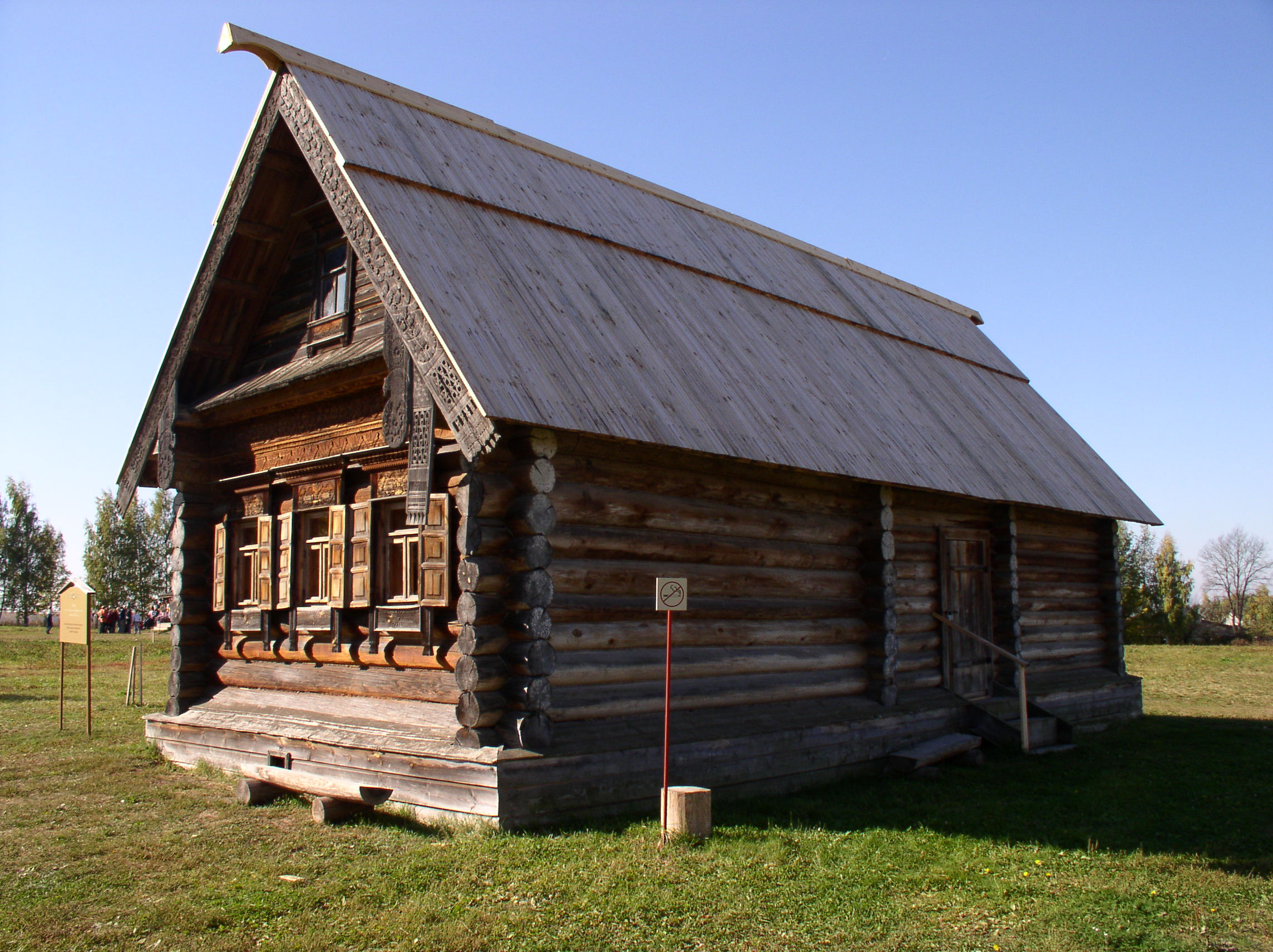 House of poor peasant. Museum of Wooden Architecture and Peasant Life in Suzdal, Russia.